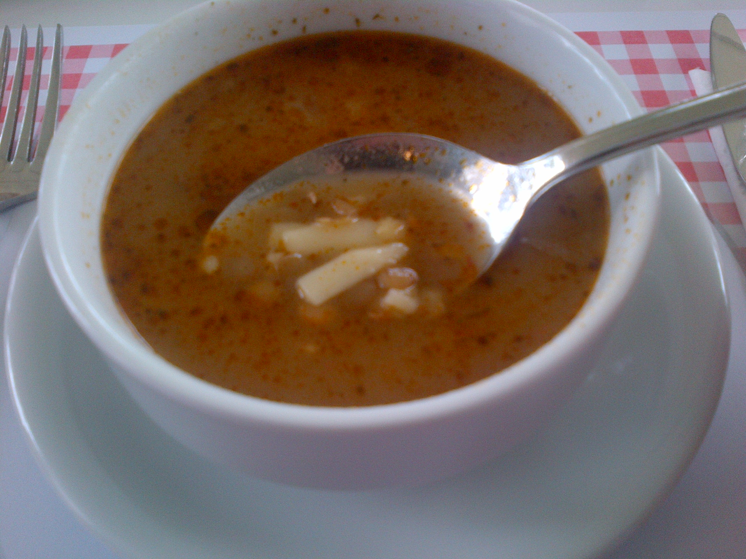 "Tutmaç çorbası" (Tutmaç soup) is a soup from the Turkish cuisine made -generally- with kesme (home-made pasta, or "eriste") and legumes like lentils and bulgur. The ingredients may vary from region to region, or even from a city to another.